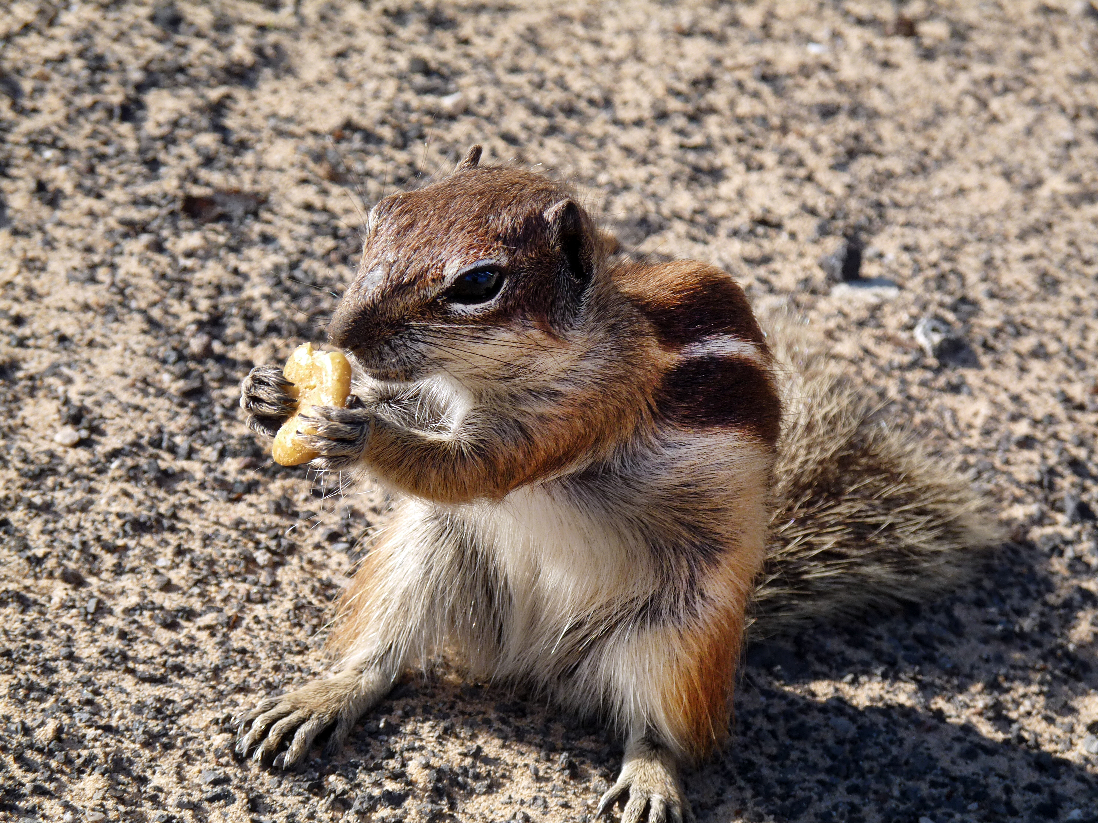 Barbary Ground Squirrel